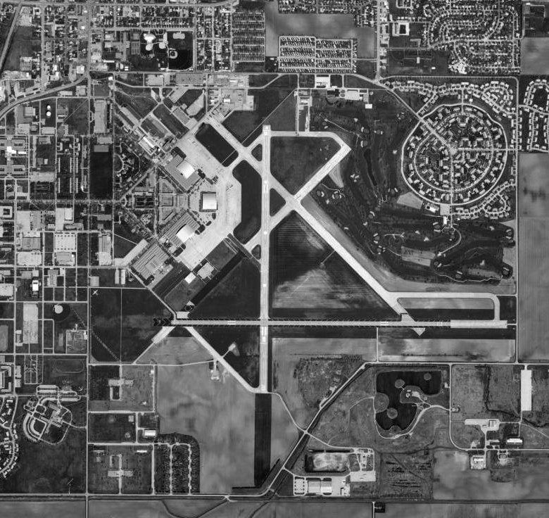 USGS digital orthophoto of Chanute Air Force Base in Illinois, United States